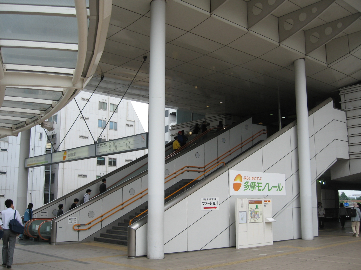 Entrance of Tachikawa-Kita Station, Tama Intercity Monorail Line.